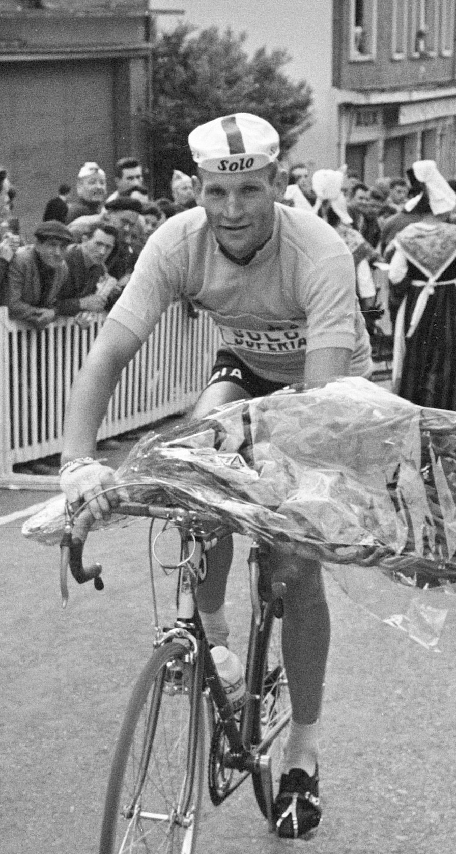 51ste Tour de France 1964. Ereronde Ward Sels (in gele trui)